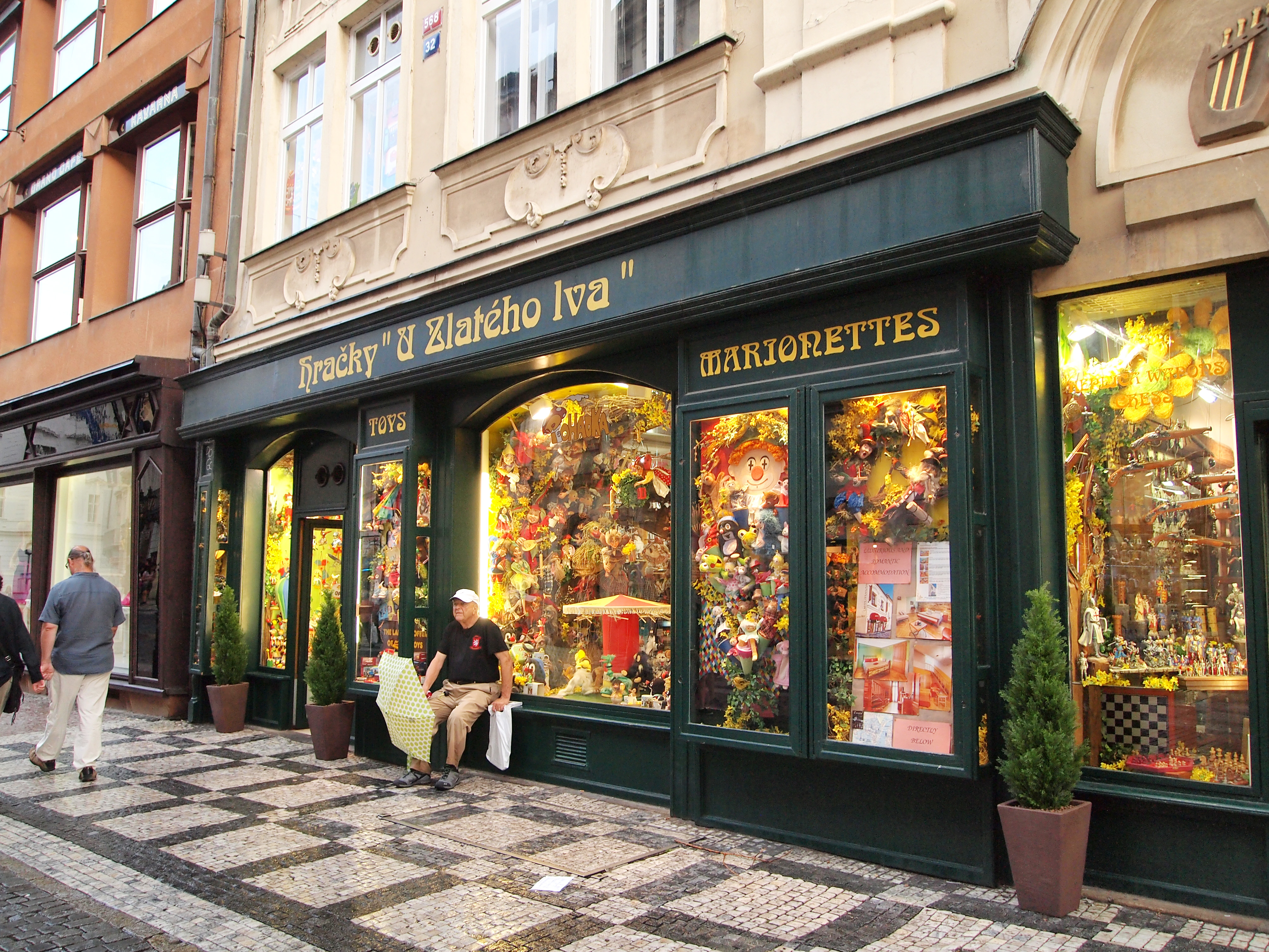 Hračky u Zlatého Iva on the street Celetná in Prague. This photograph was taken with an Olympus E-PL1